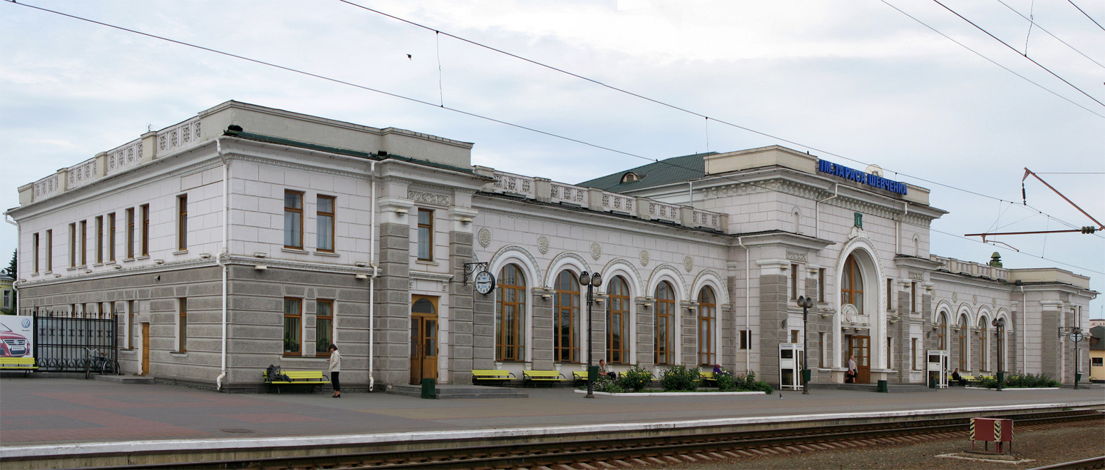 Taras Shevchenko railway station in Smila, Ukraine